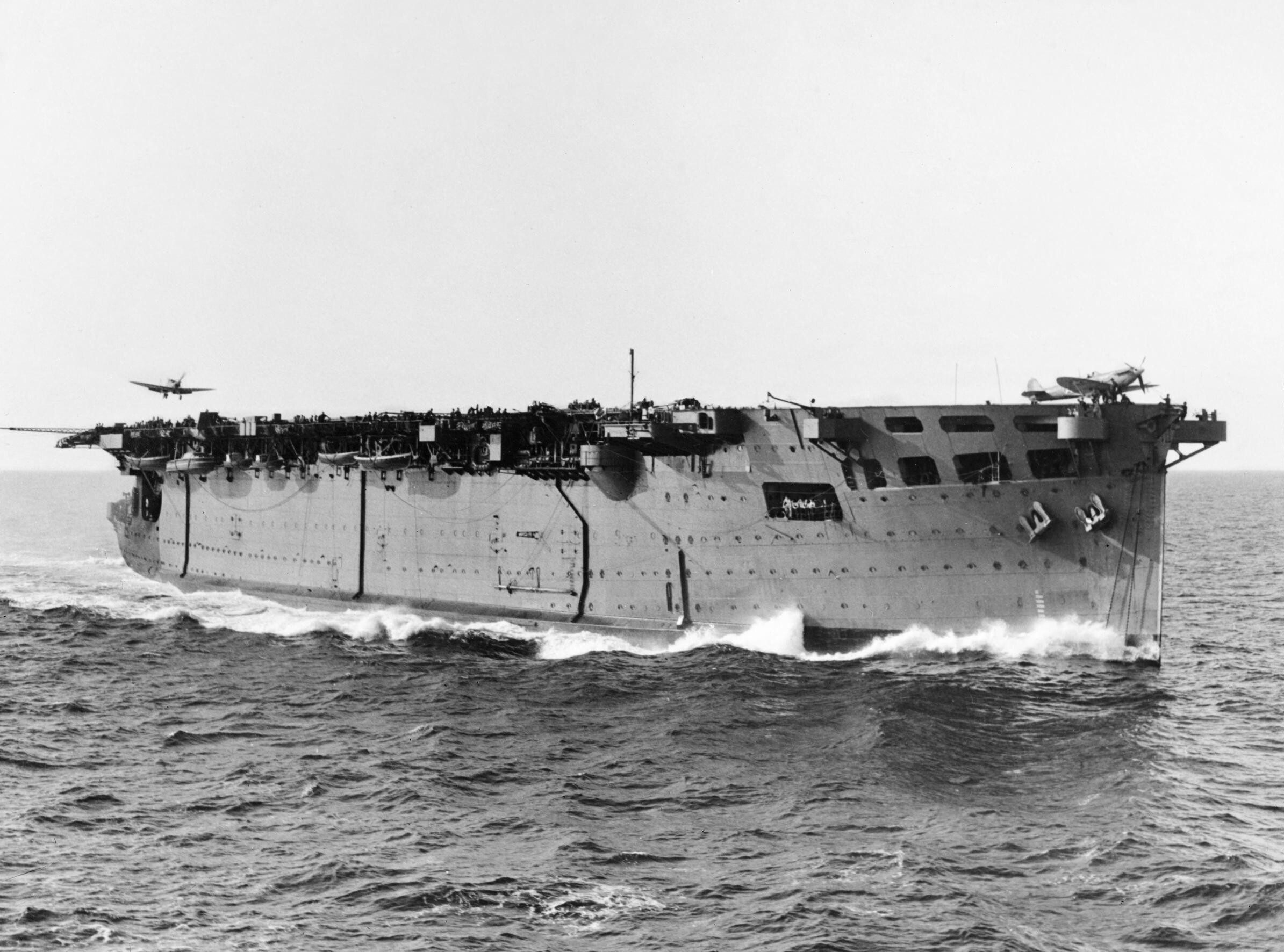 The Royal Navy during the Second World War HMS ARGUS operating off the North African coast during combined operations for the 'Torch' landings.